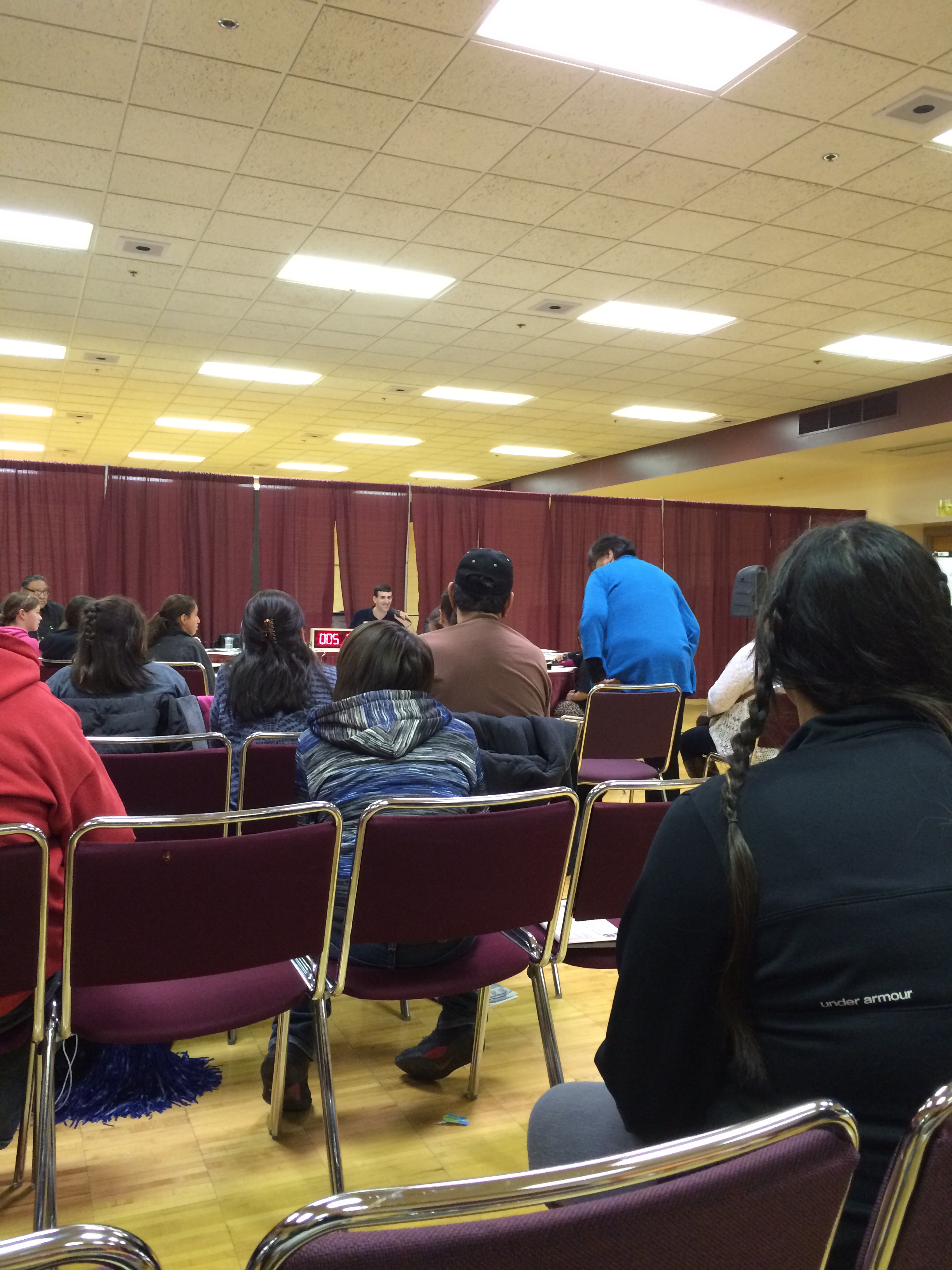 Lakota language bowl in Rapid City